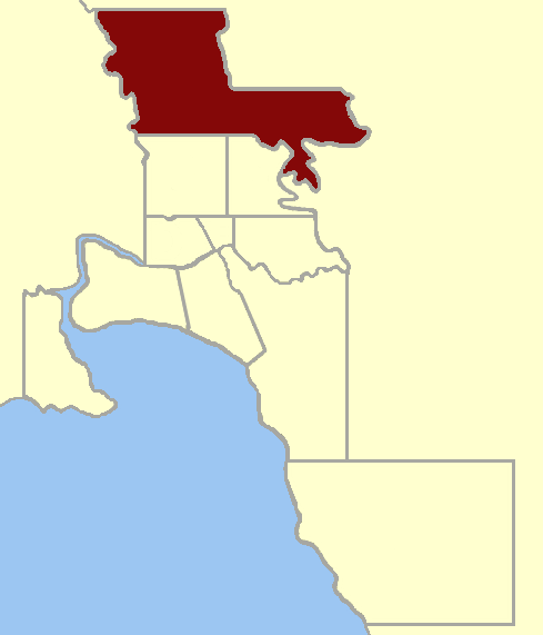 Electoral district of East Bourke Boroughs 1859, Victorian Legislative Assembly